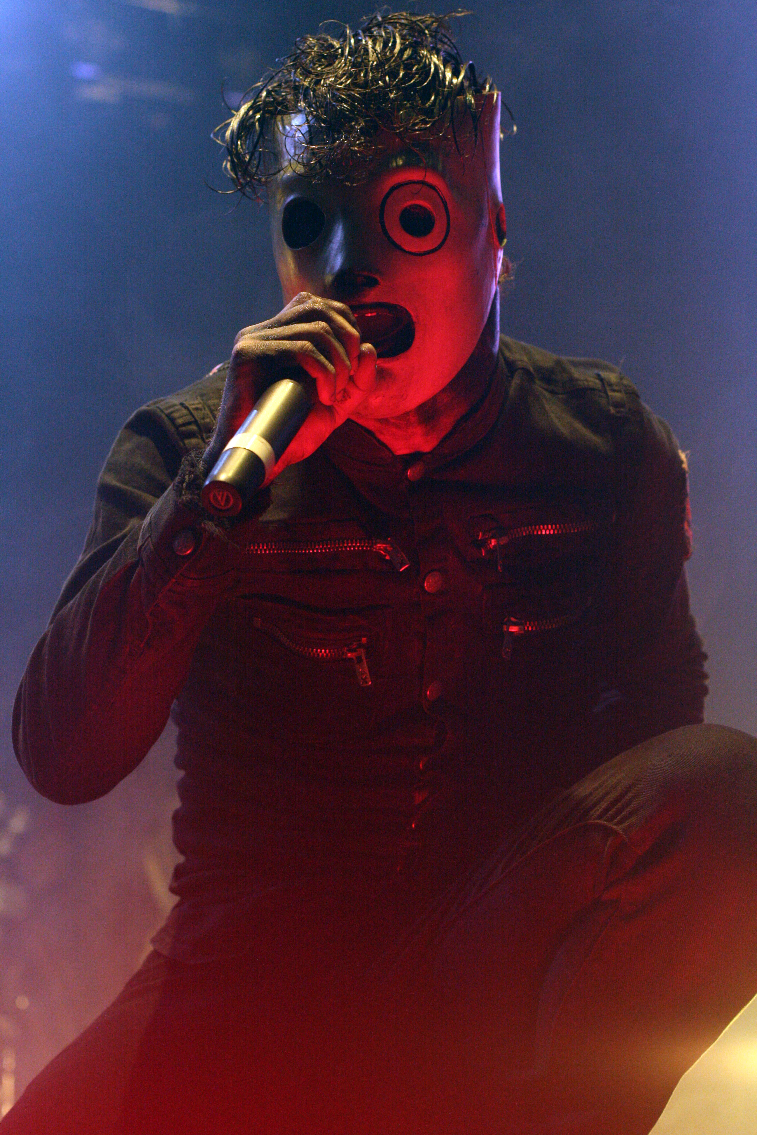 Corey Taylor of Slipknot performing on the Mayhem Festival 2008.